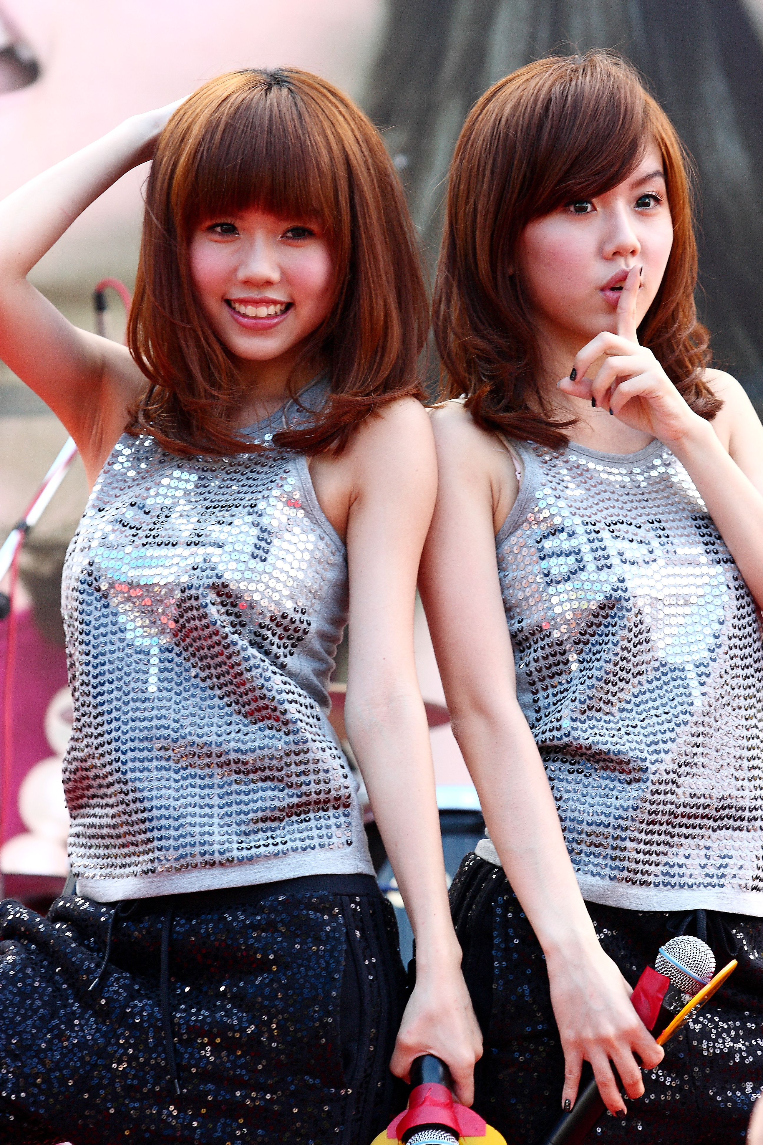 Autograph session with By2 at the Tainan South Park 2009.